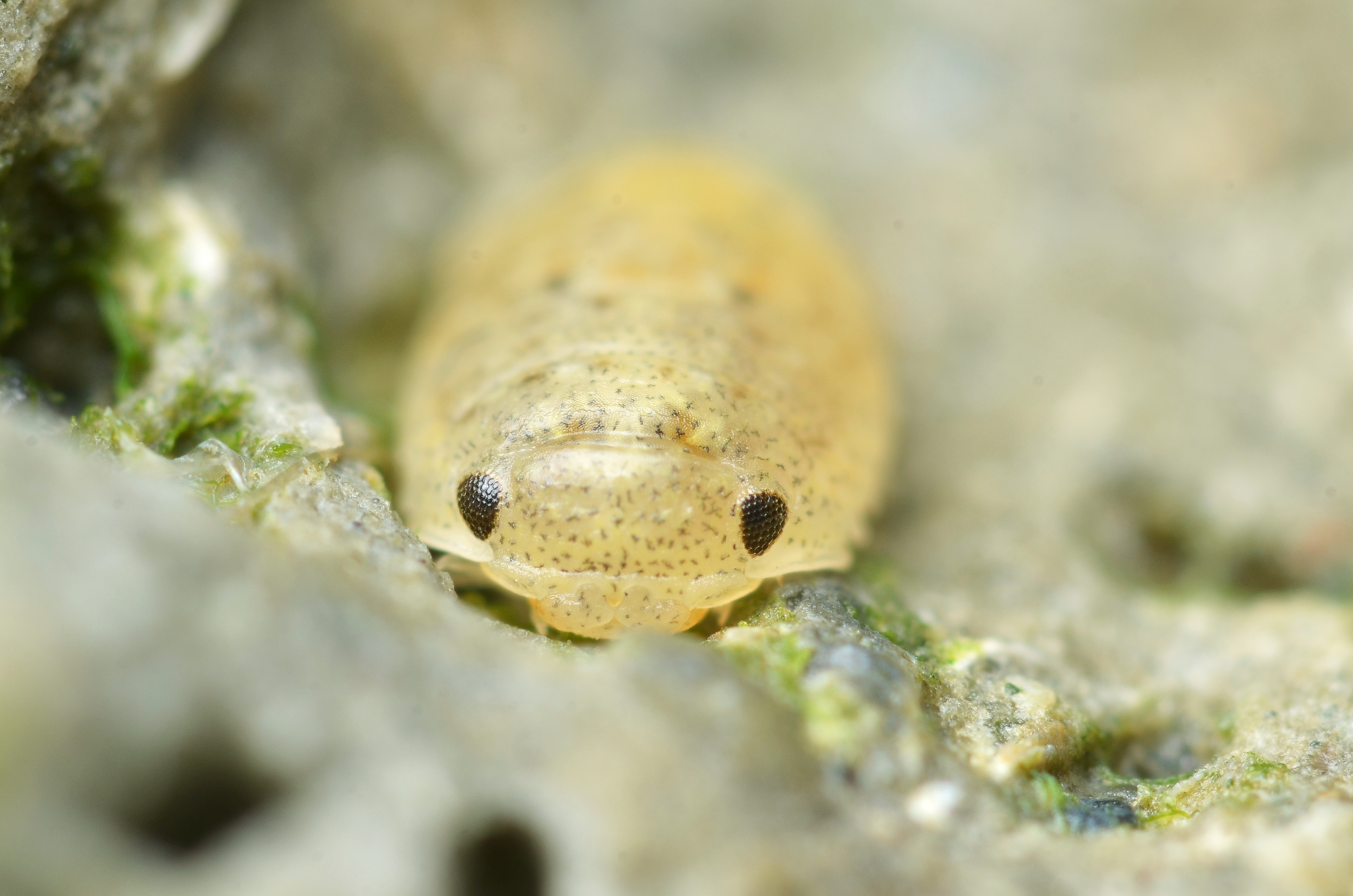 A coastal Isopod of the family Sphaeromatidae (Malacostraca, Isopoda), from one of the genera formerly collectively known as "Sphaeroma" - Lekanesphaera rugicauda looks superficially similar. Locality : Wimereux, France